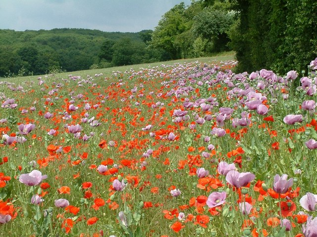 Arable-field margin, Ranscombe Farm, Kent. Common poppy (Papaver rhoeas), Rough poppy (Papaver hybridum) and Opium poppy (Papaver somniferum) at the edge of a field of oats